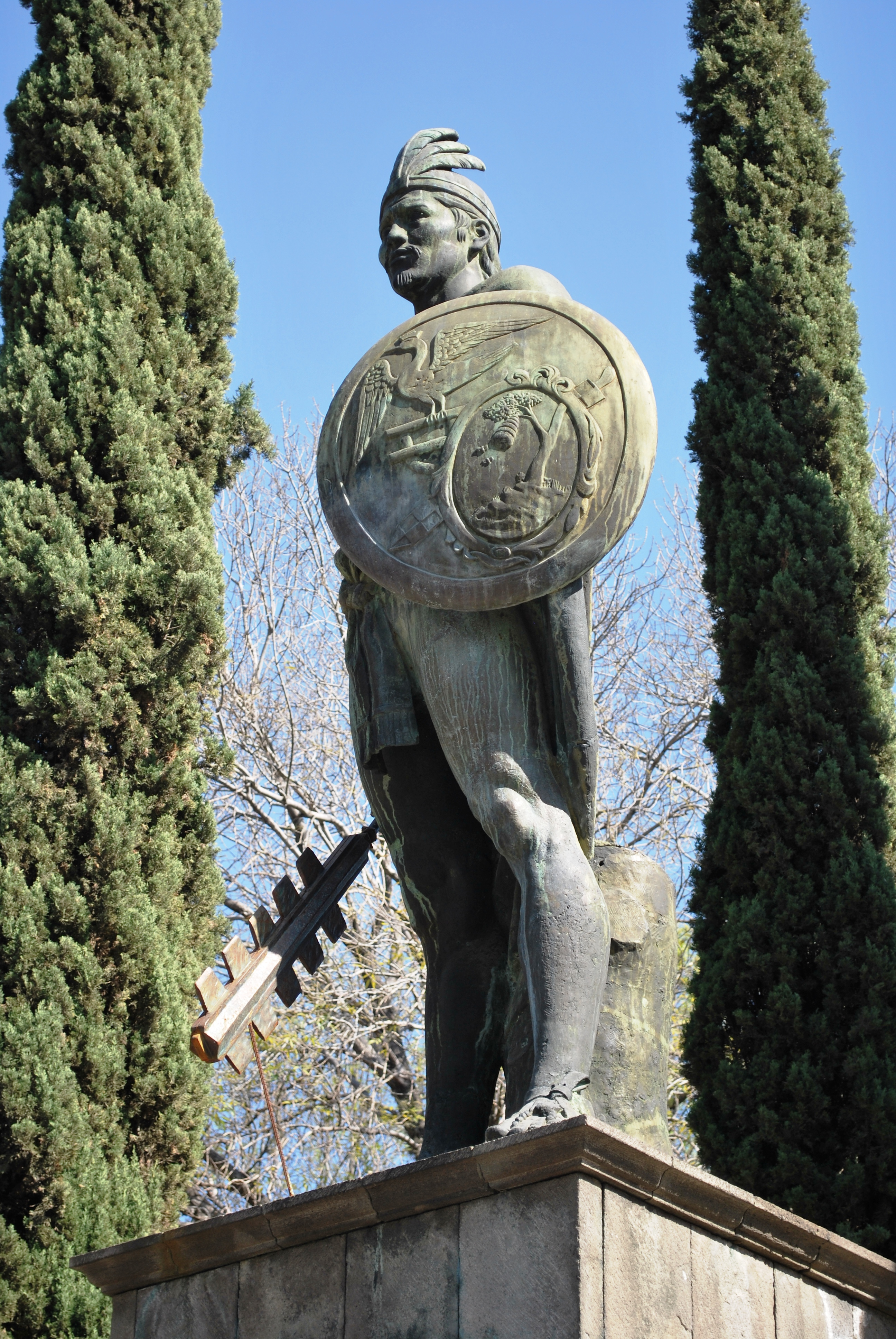 Statue of Xicohtencatl in the plaza of the same name in Tlaxcala, Mexico